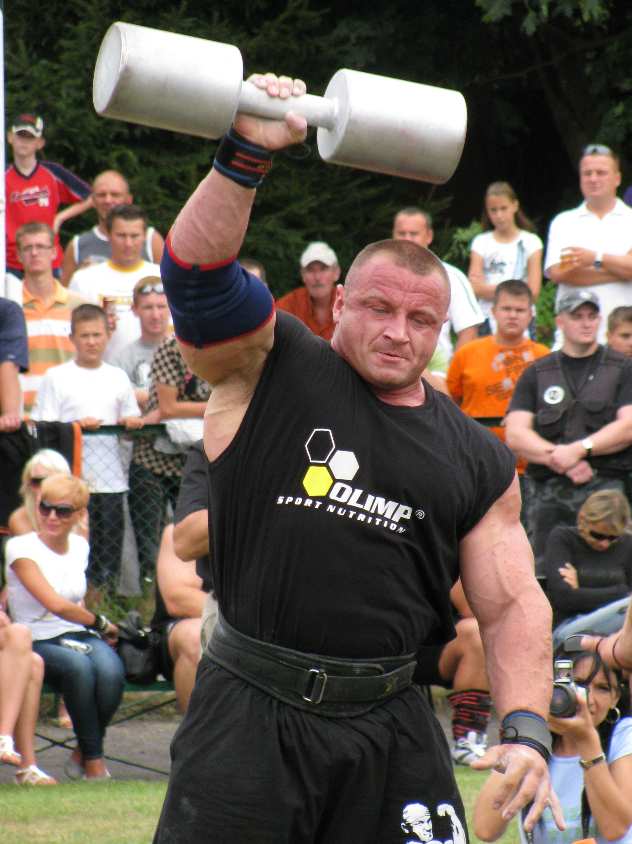 Mariusz Pudzianowski - the Strongest One